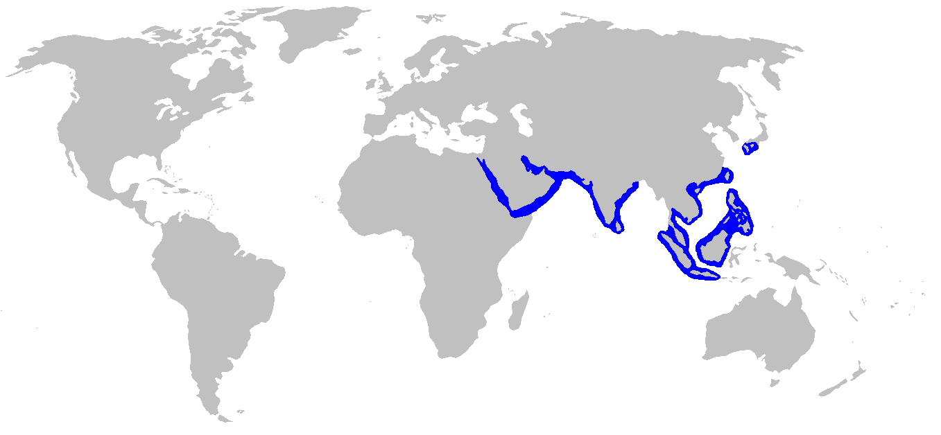 Range of the longtail butterfly ray (Gymnura poecilura), based on IUCN